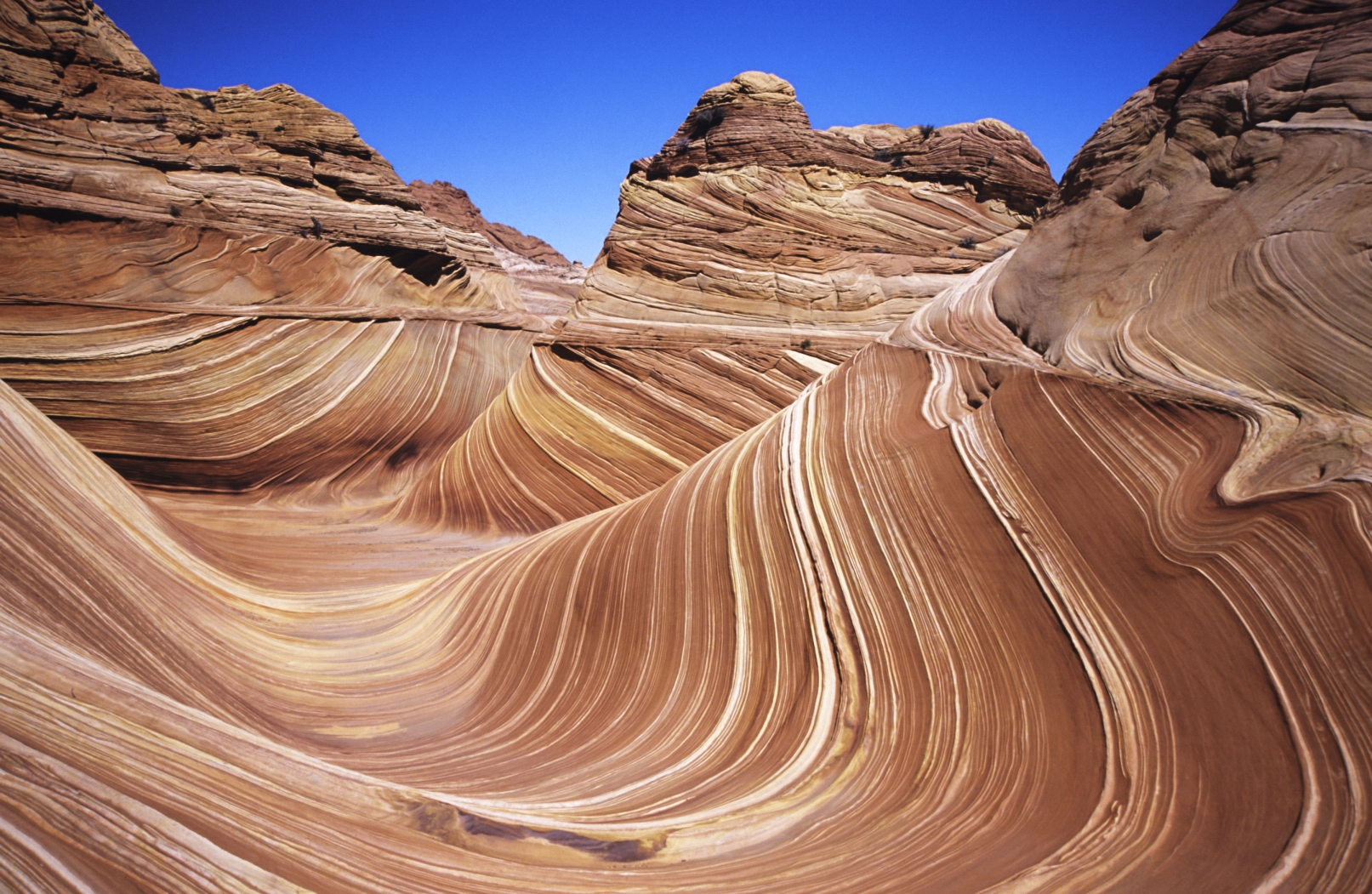 The Wave, a sandstone formation in northern Arizona. Greg Bulla